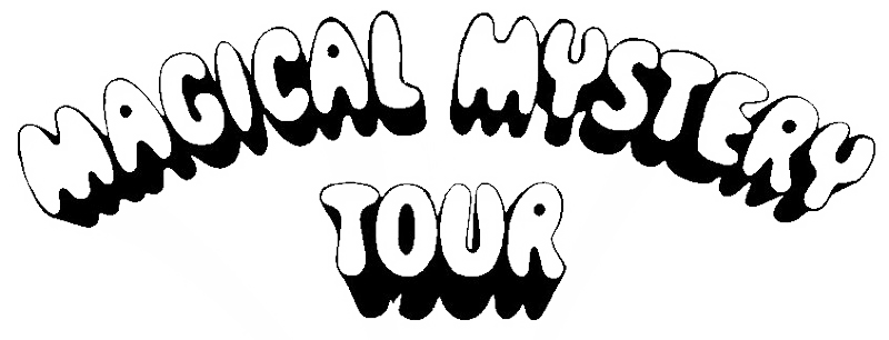 The Beatles Magical Mystery Tour Logo